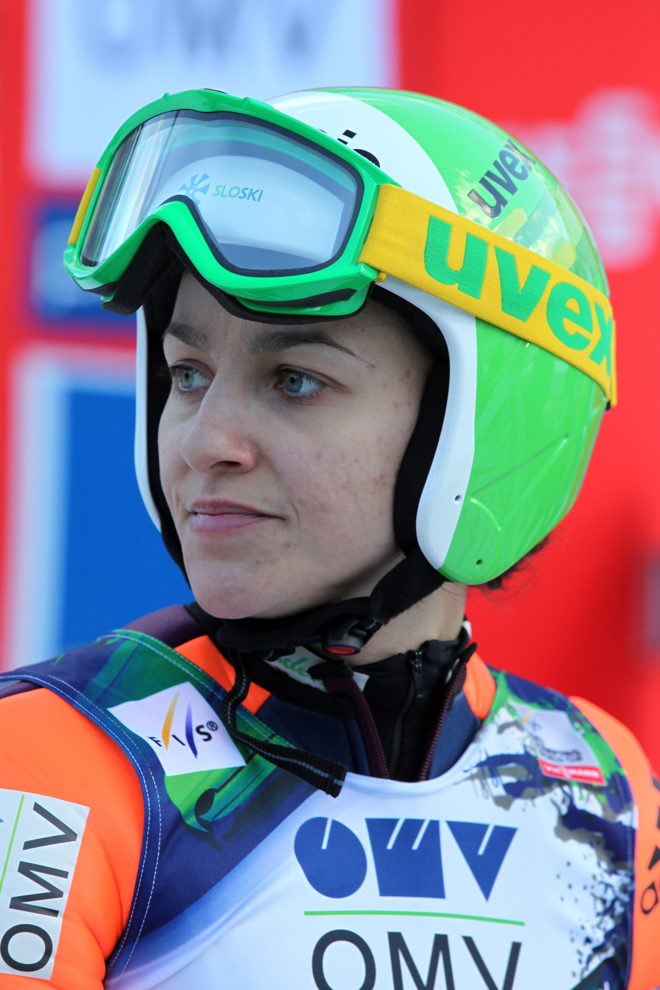 Maja Vtic at the World Cump Ski Jumping event in Planica